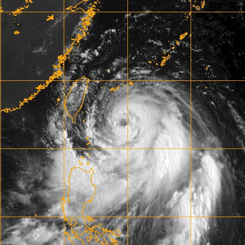 Visible image from GMS-6 of Typhoon Fung-wong at 0057z on July 27.